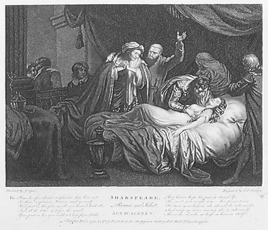 Act IV, Scene 5: Juliet's supposed death